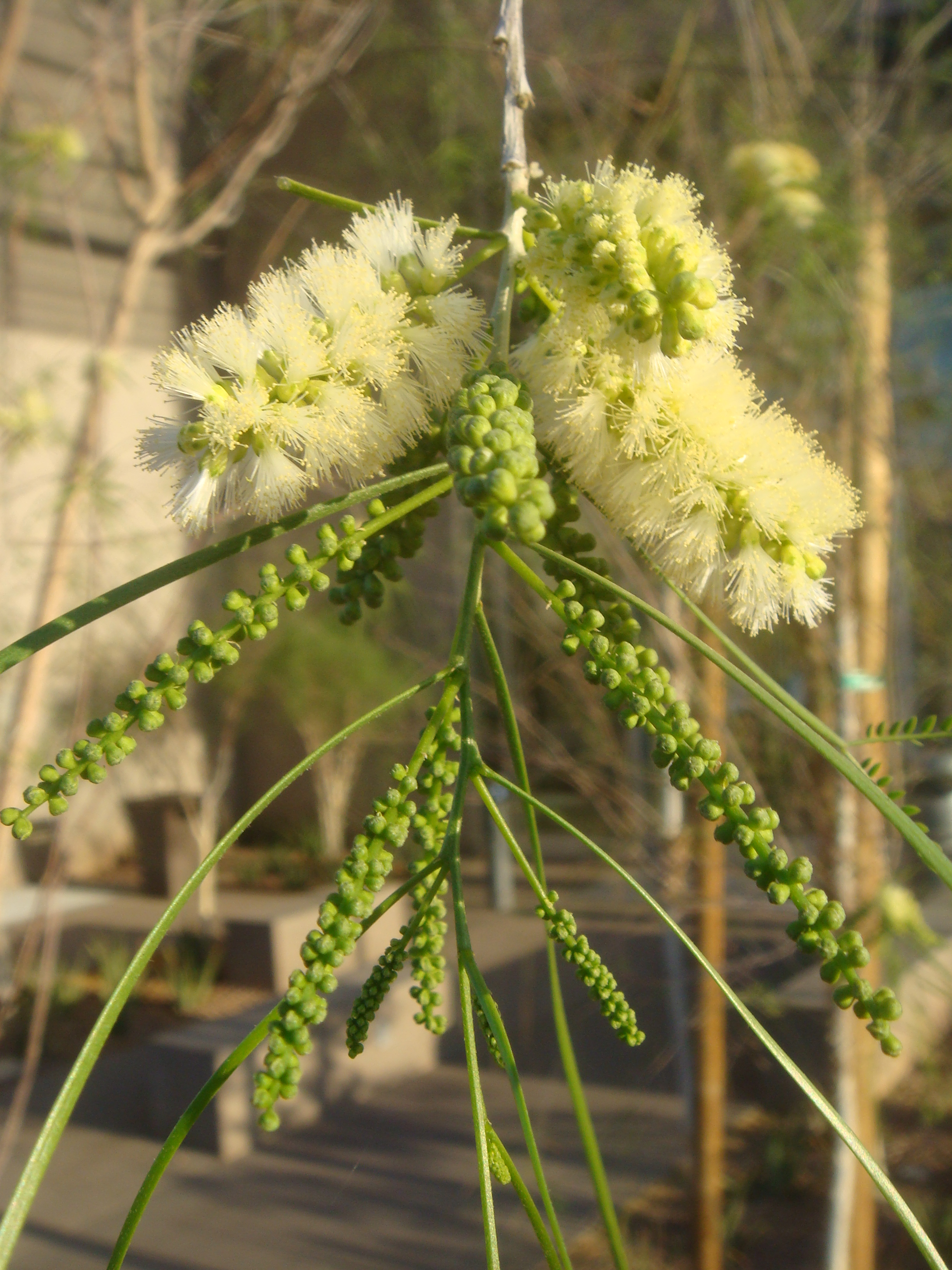 Acacia willardiana, cultivated, Arizona State University, Tempe, Arizona; SE corner of Apache and College